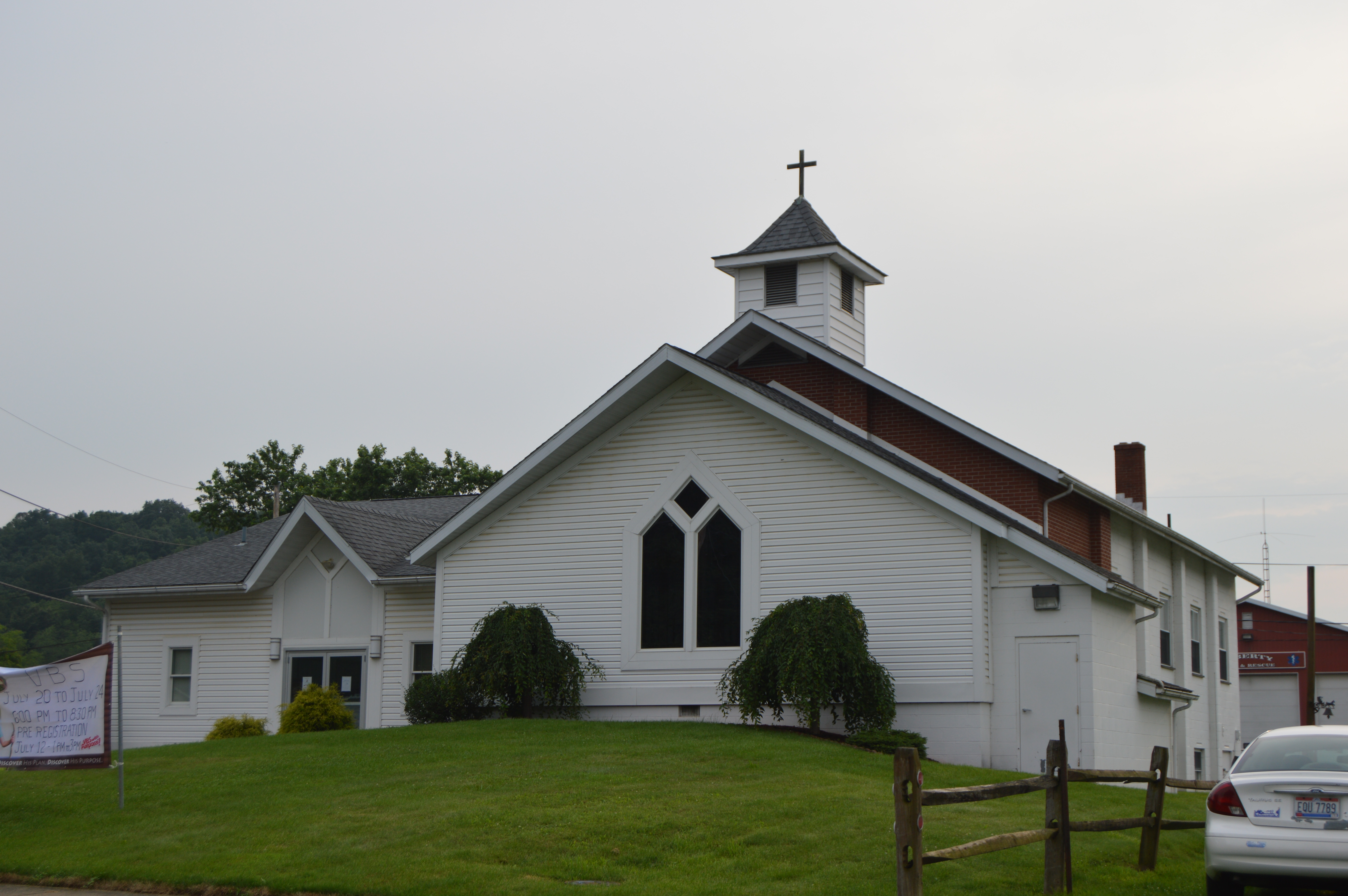 Front of the Kimbolton United Methodist Church, located at 215 Main Street in Kimbolton, Ohio, United States.